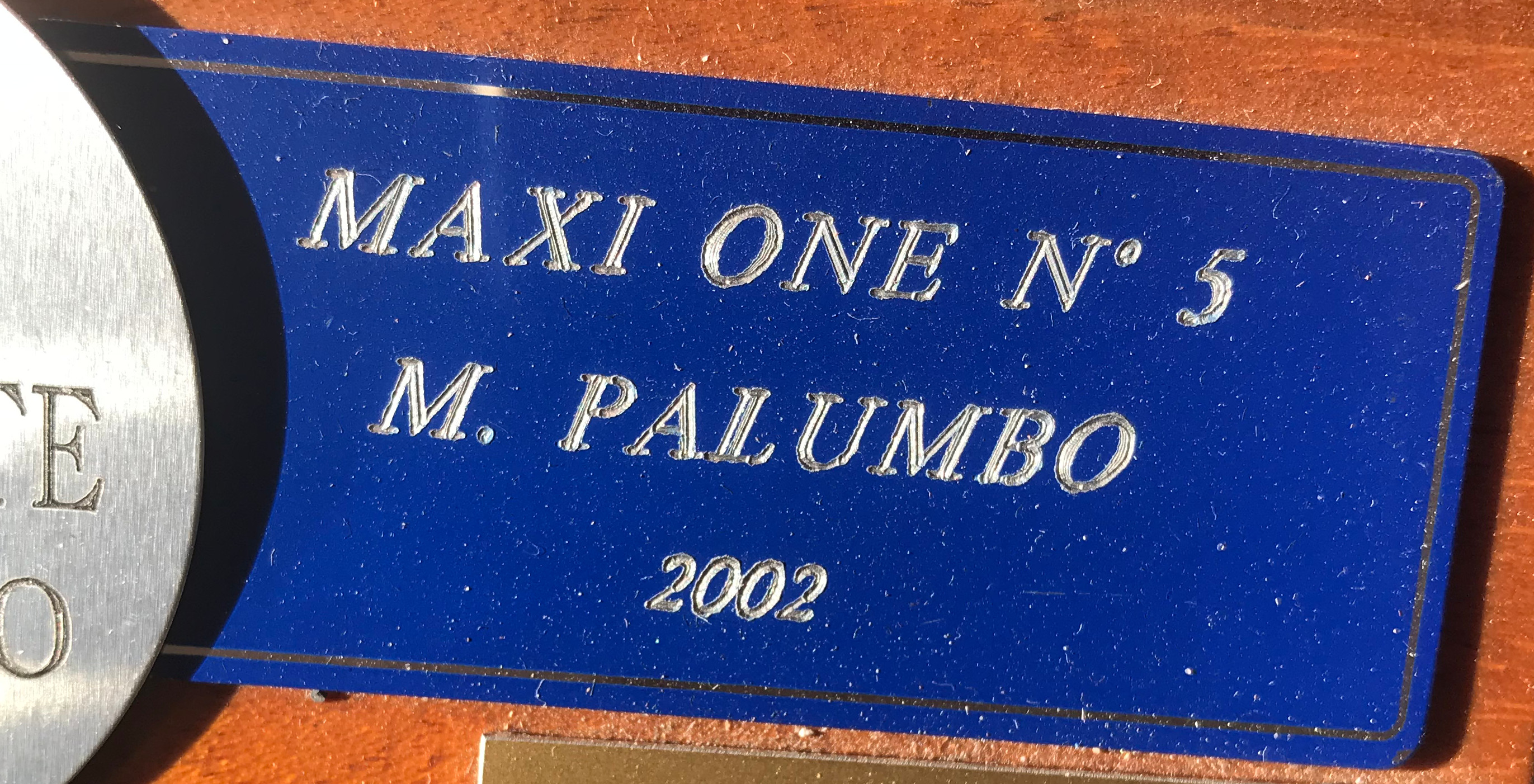 Patch on the Trophy